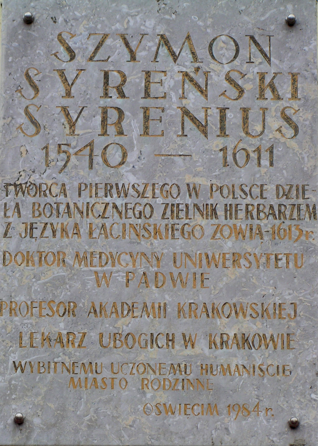 A plaque on the Market Square in Oświęcim dedicated to Szymon Syreński (Syreniusz).